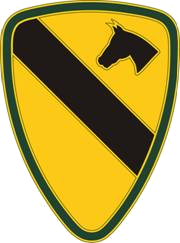 1st Cavalry Division CSIB